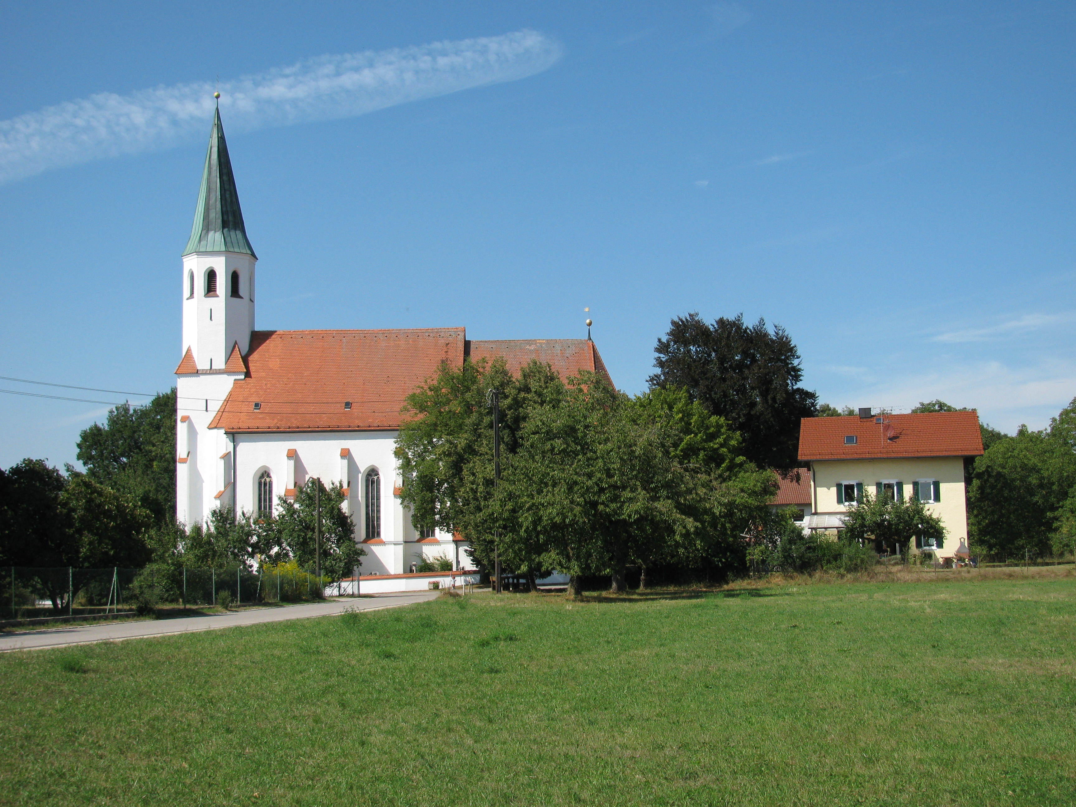 St. Georg church in Weng, municipality of Fahrenzhausen